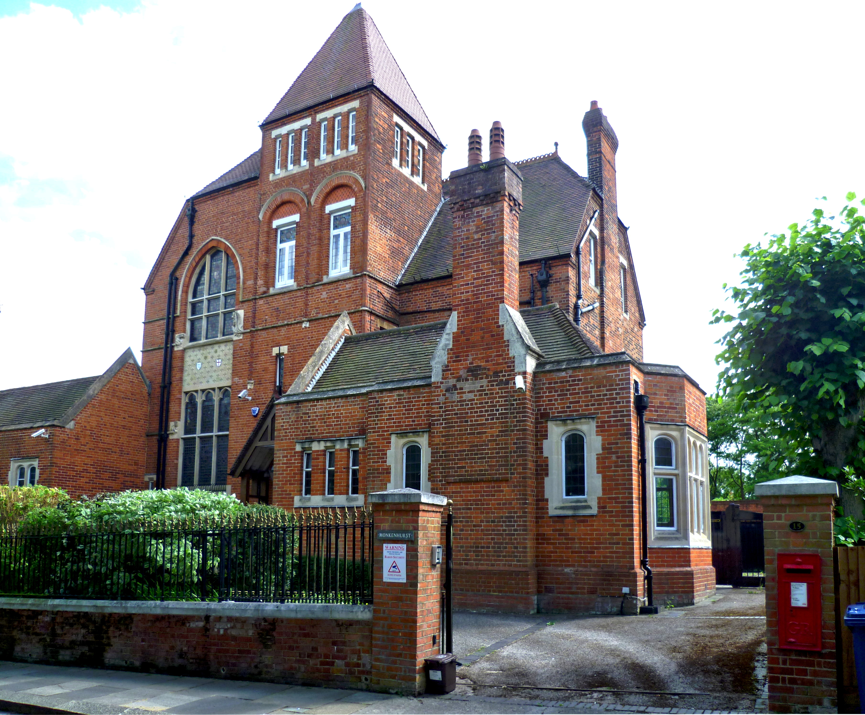 Monkenhurst